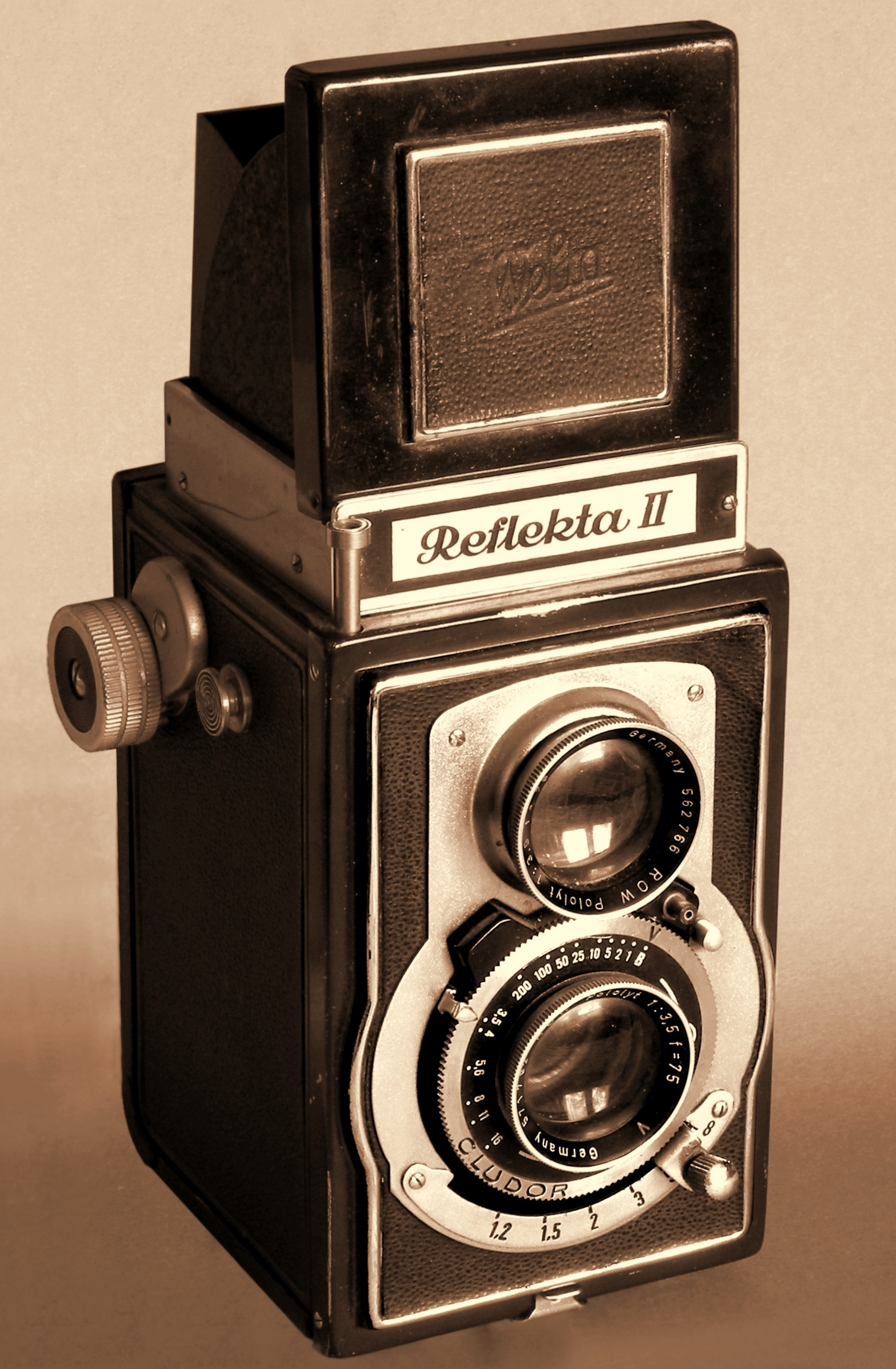 1950s Reflekta II camera